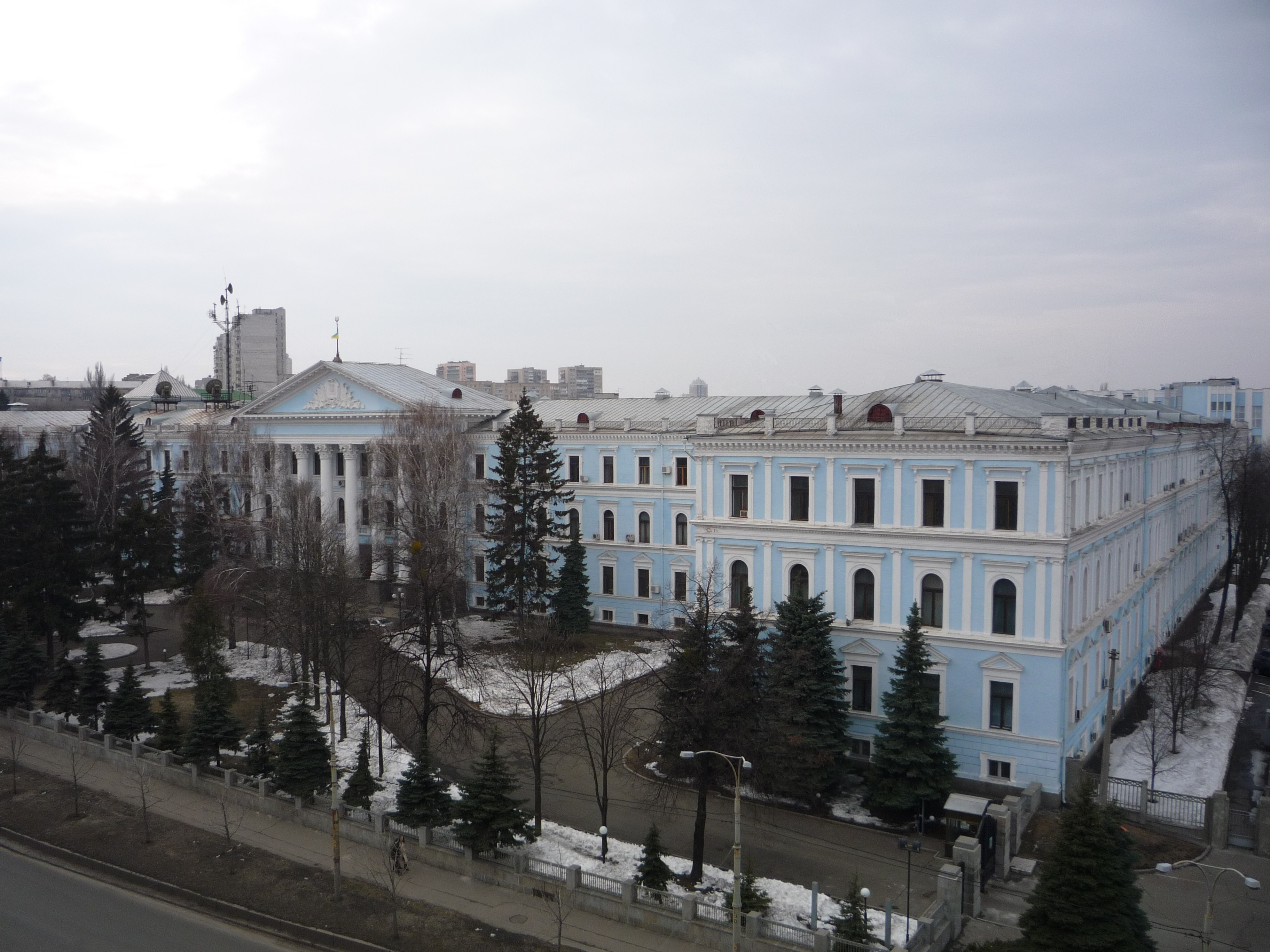 Former building of Grand Duke Vladimir Kiev Cadet Corps (VKKK) (1851-1919), Kiev, Ukraine. Now housing the Ministry of Defence of Ukraine.